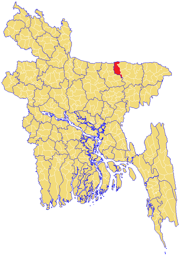 Map of Dharampasha Upazila in Sunamganj District, Sylhet Division, Bangladesh